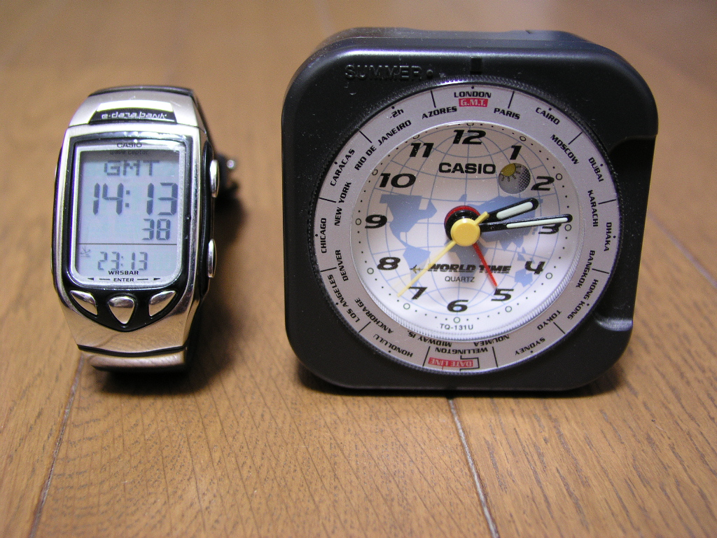 World clock and watch